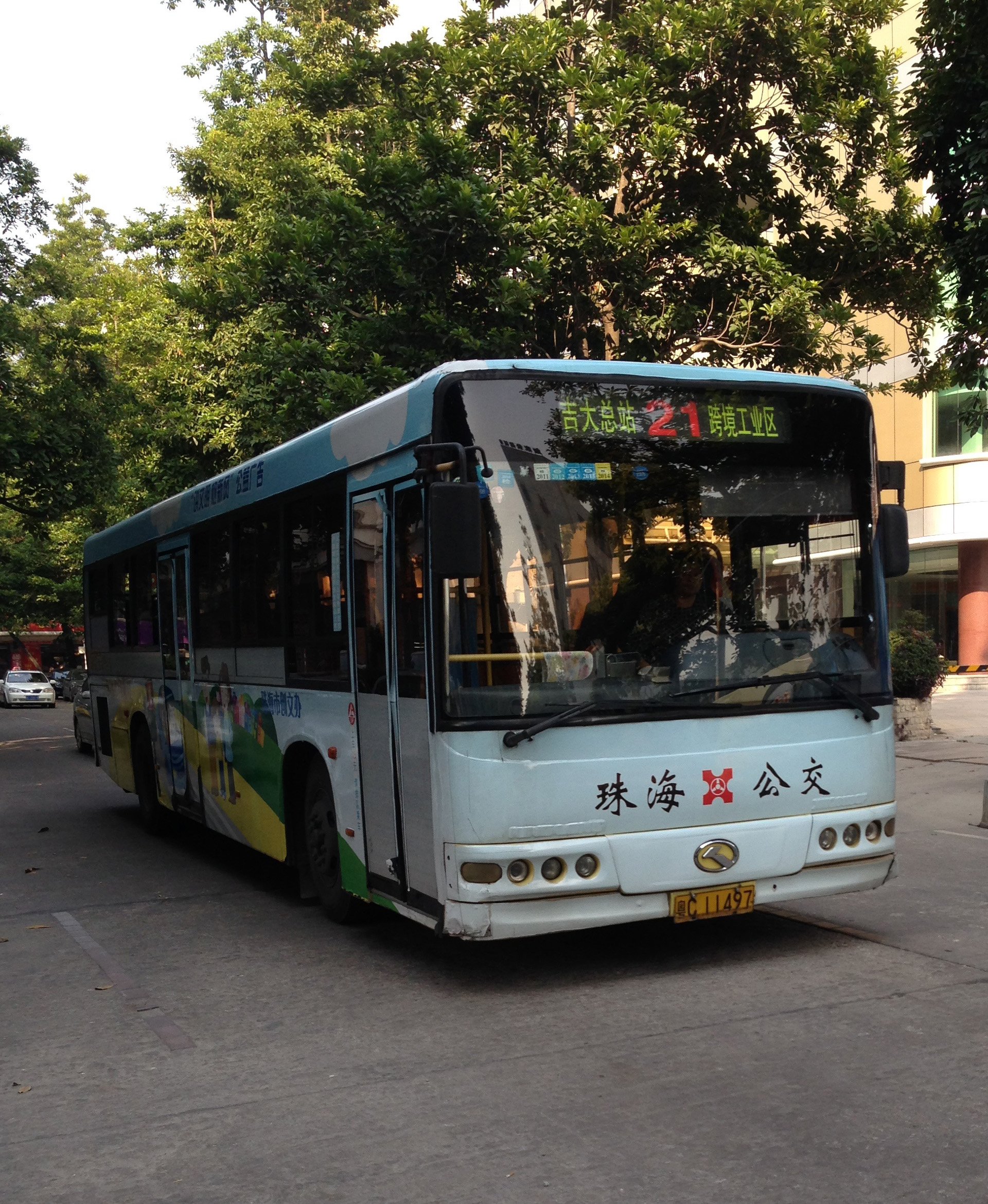 Zhuhai Bus Route 21